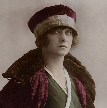 Photograph of the musical theatre comedy actress and singer Winifred Barnes (1892-1935)